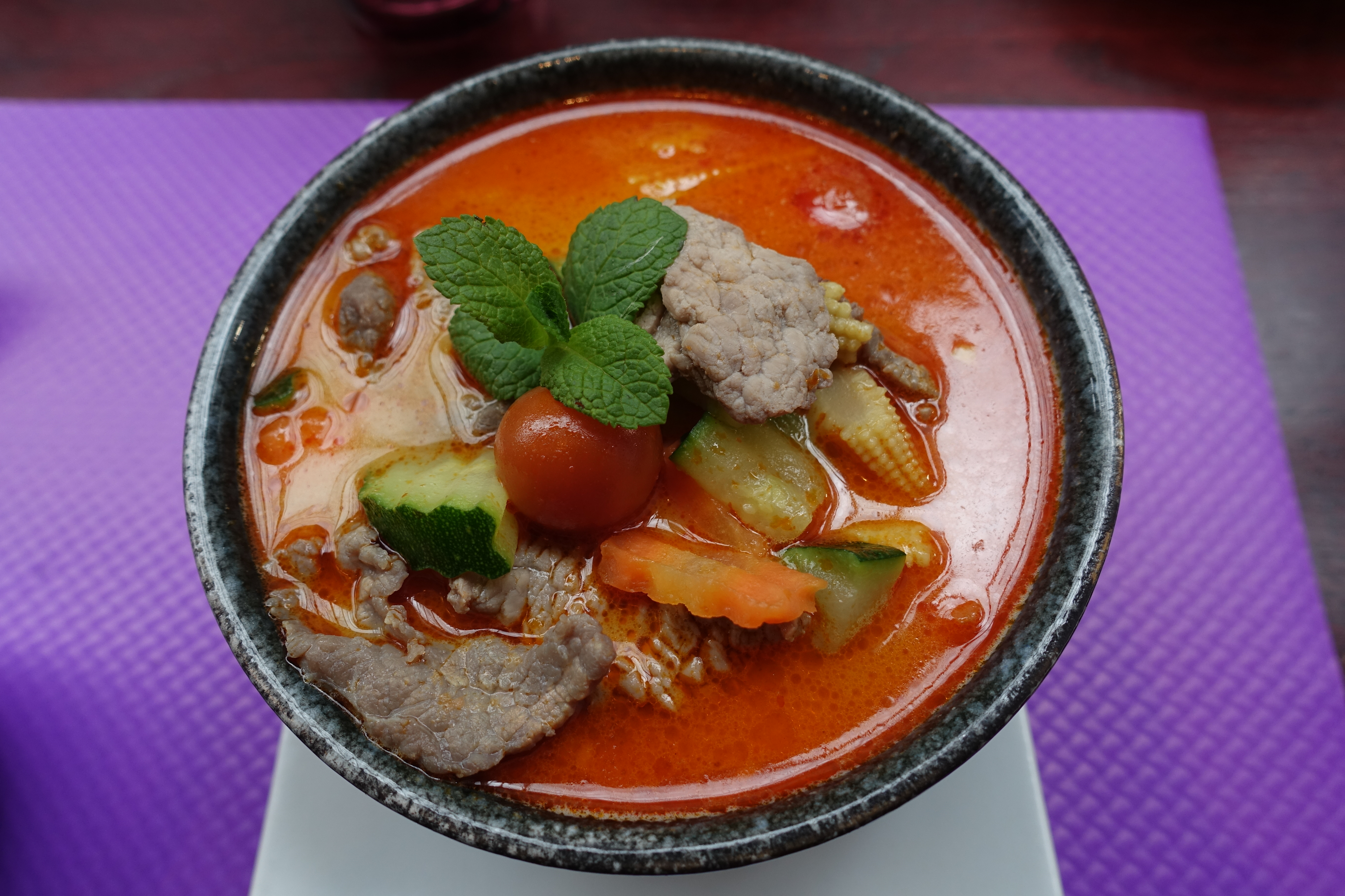 Beef massaman curry @ Saveurs d'asie Paris 15 @ Paris